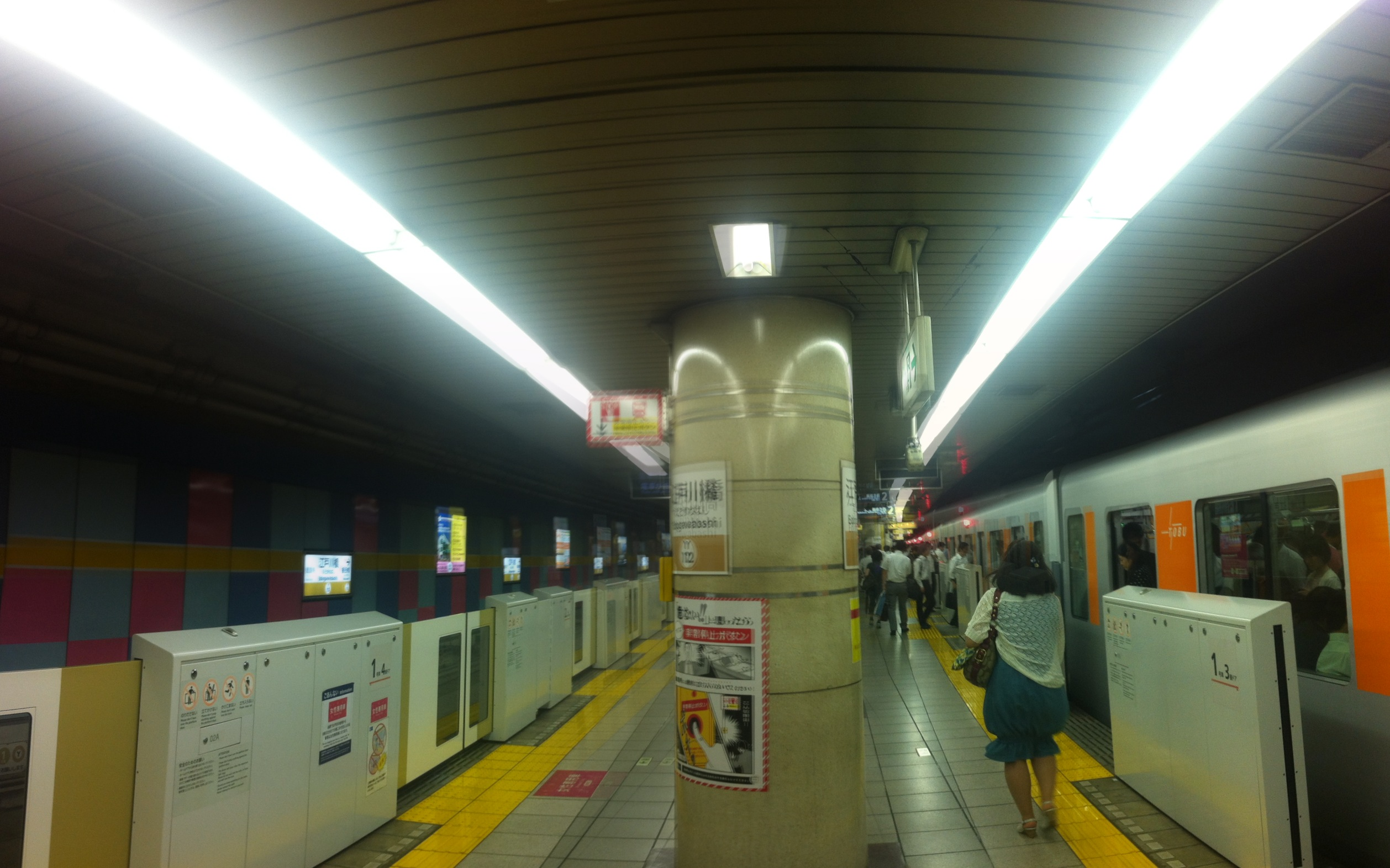 江戸川橋駅のホーム Edogawabashi station platforms